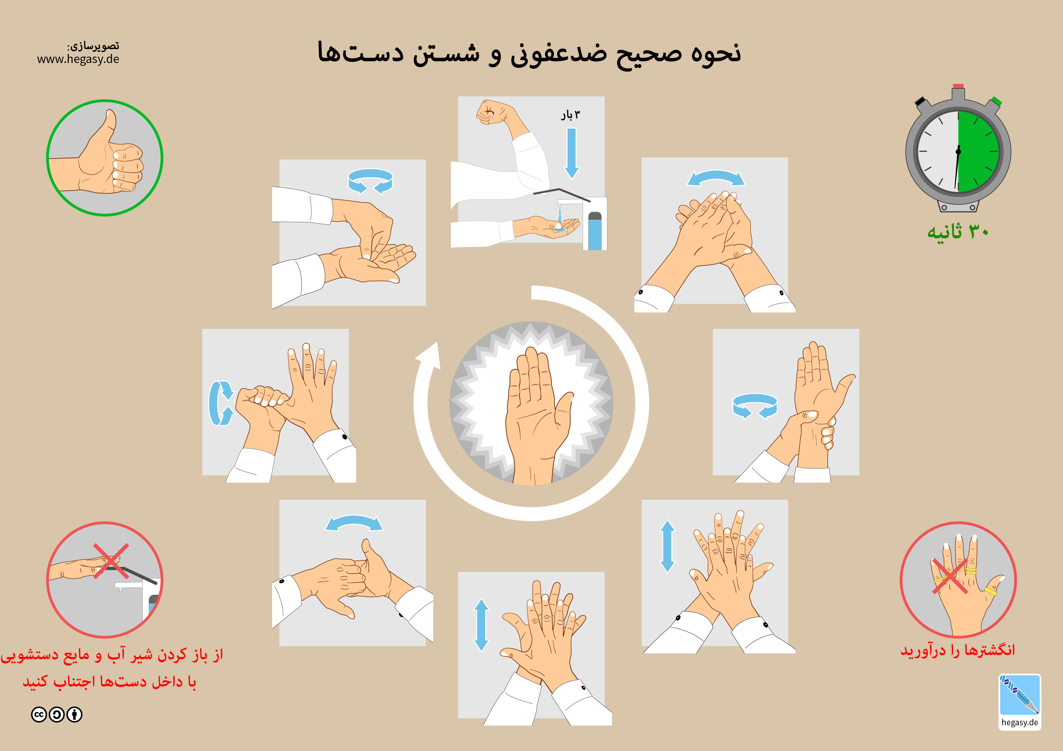 Hand Hygiene in Farsi language.